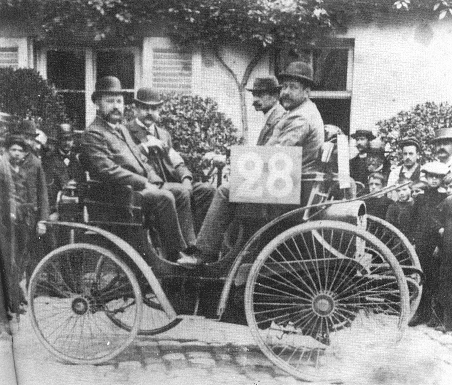 #28 Auguste Doriot (second from right) in Peugeot 3hp at 1894 Paris-Rouen race (3rd place)